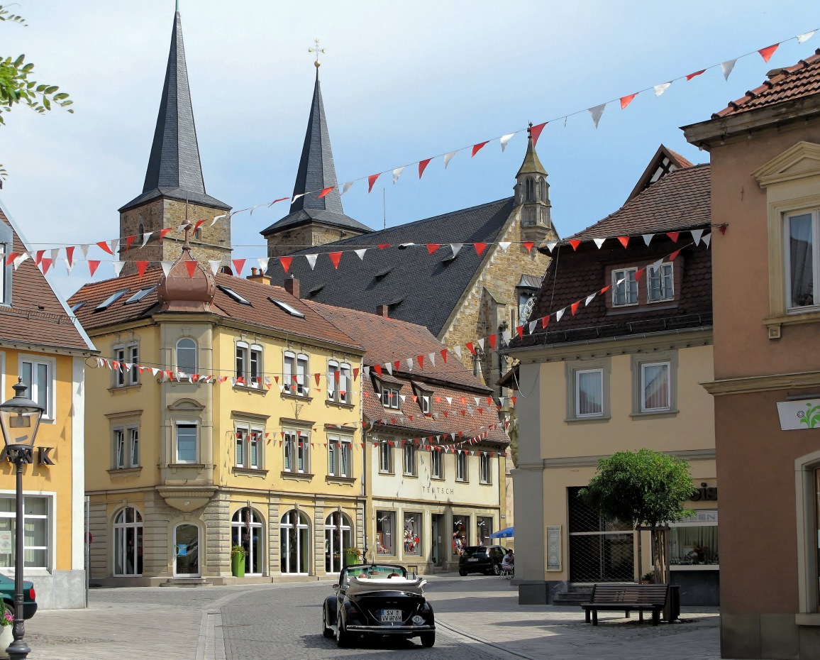 City "Gerolzhofen", Street "Marktstraße"